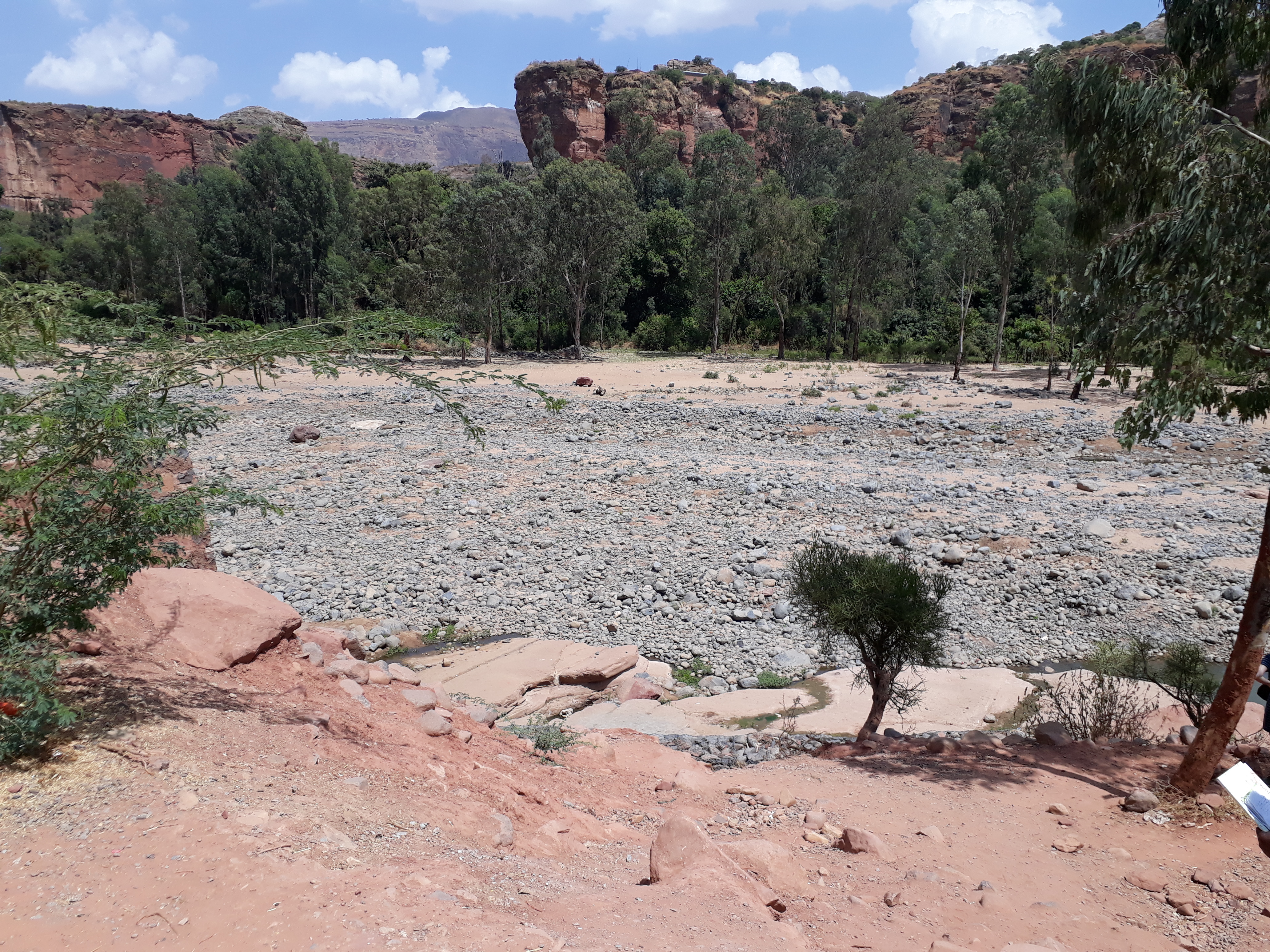 Tanqwa at May Lomin